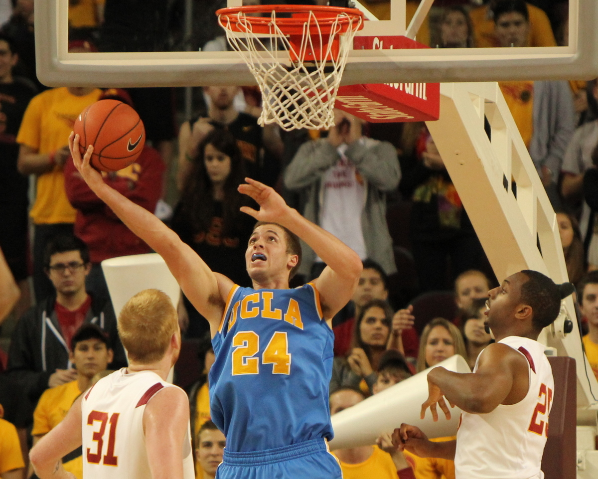 No. 24 Travis Wear of UCLA vs USC at Galen Center.